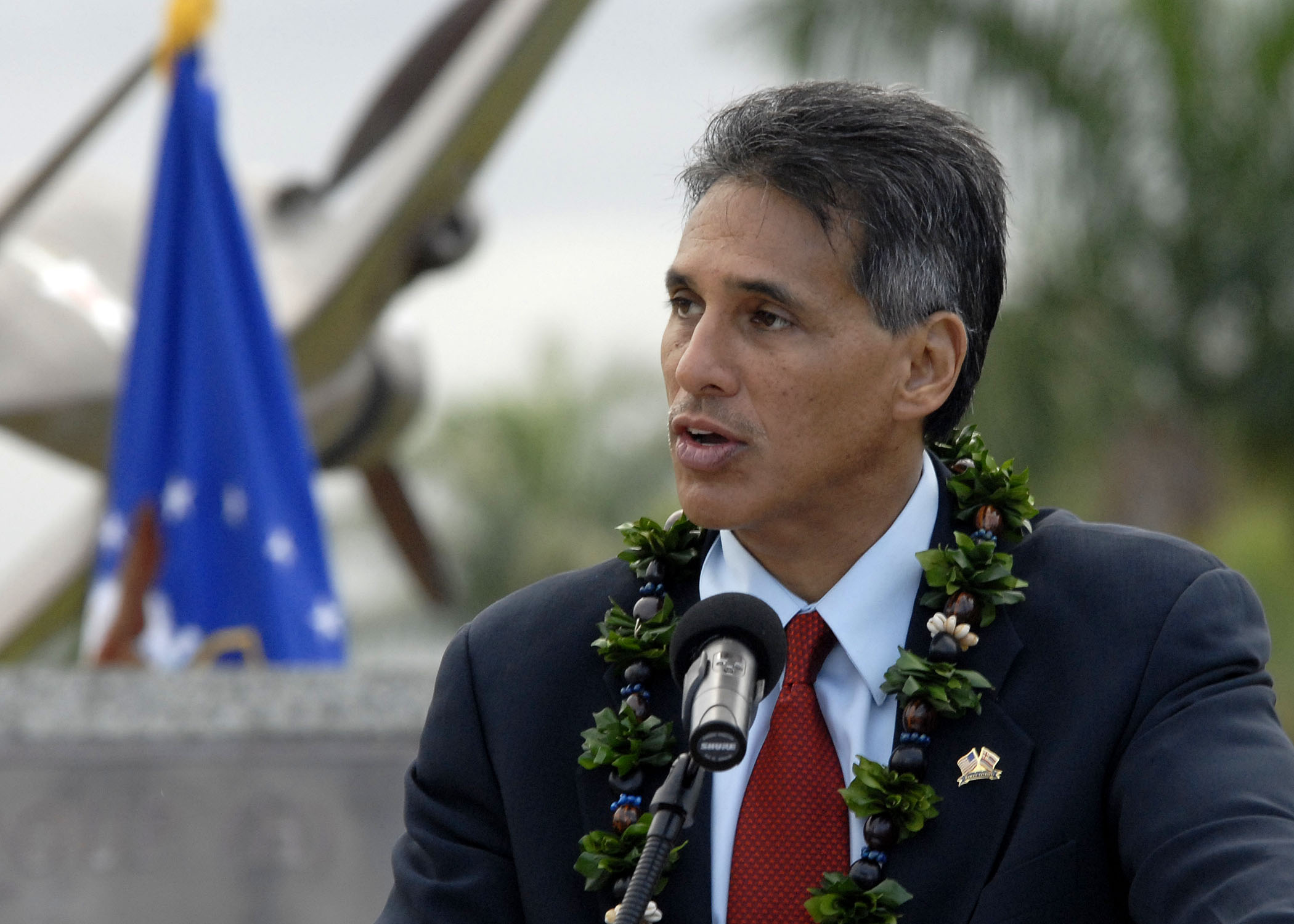 James Aiona, Lt. Governor of Hawaii,speaks to survivors, Hickam airmen, friends and family members of the victims of the Dec. 7, 1941 attacks on Hickam Air Field, during a remembrance ceremony Dec. 7 at Hickam Air Force Base, Hawaii. The ceremony marked the 68th anniversary of the Japanese attack on Pearl Harbor and Hickam Air Field, and paid tribute the Airmen who were attacked and died on that tragic day.